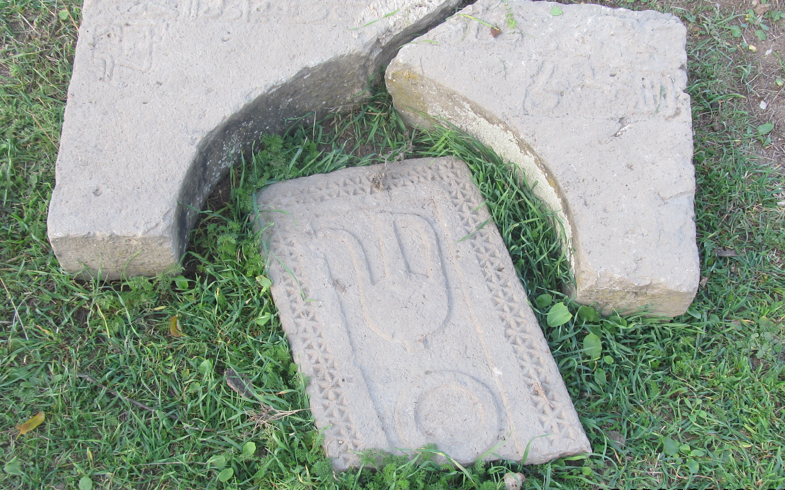 For Alherd wikipage